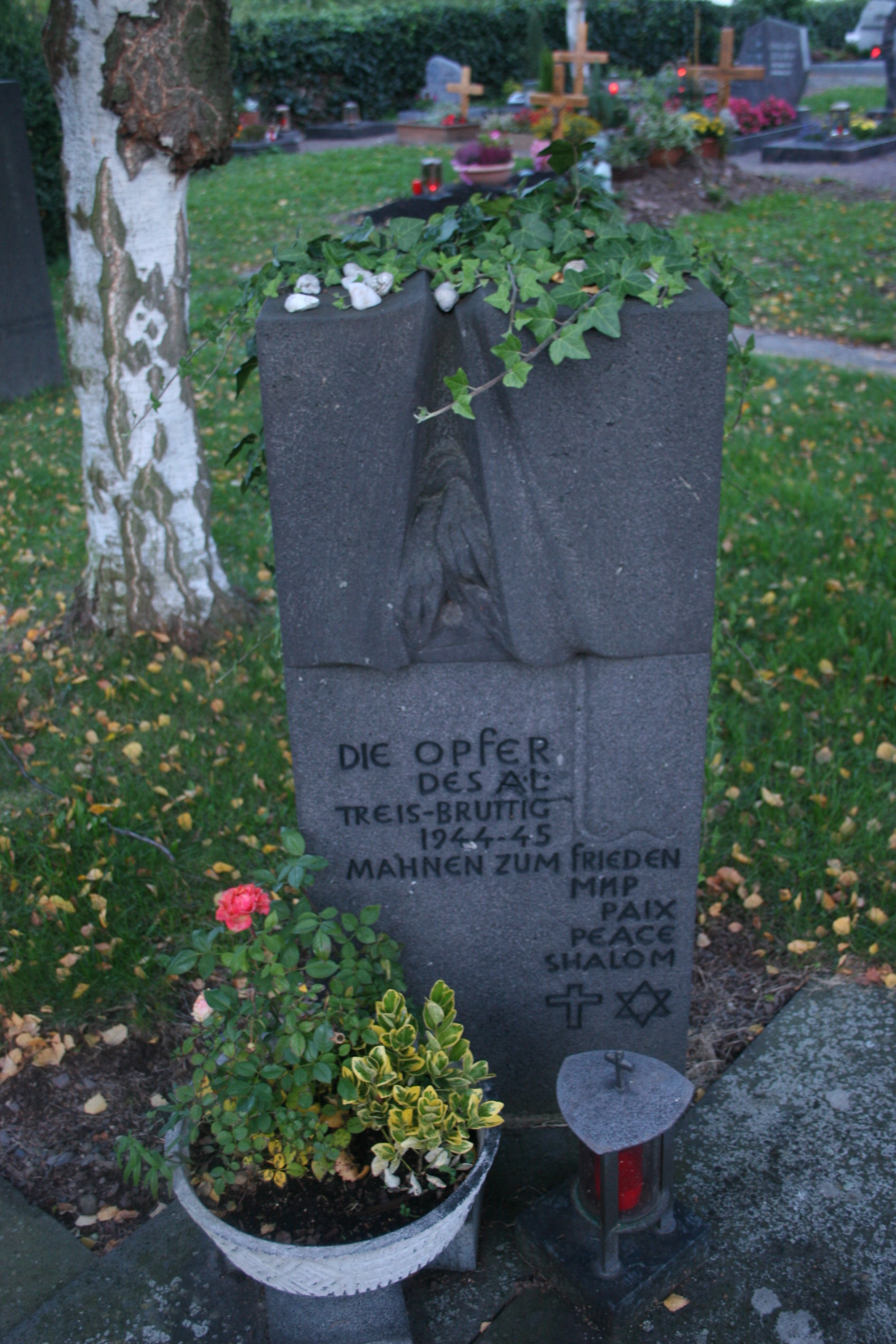 Memorial Stone, located at the graveyard in the village of Bruttig, remembering the Nazi Concentration Camp Bruttig-Treis. Euphemistically but wrongfully, the inscription reads AL, which means "Arbeitslager" (labor camp).